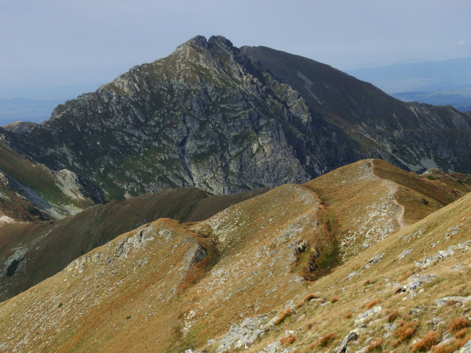 Rohacz Ostry, Smrek (West Tatra Mountains)